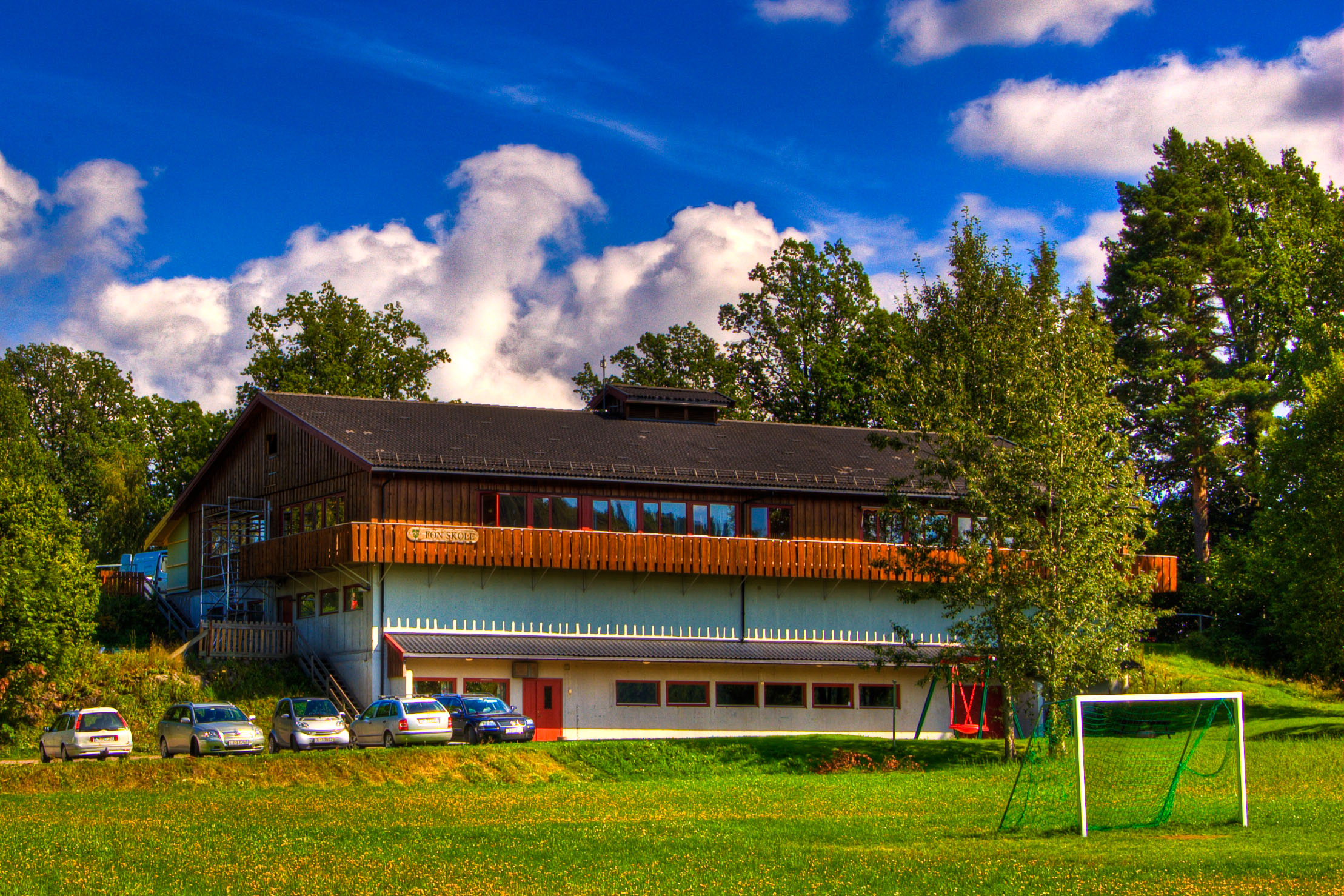 Fon skole, a public primary school in Fon, Re, Vestfold, Norway.